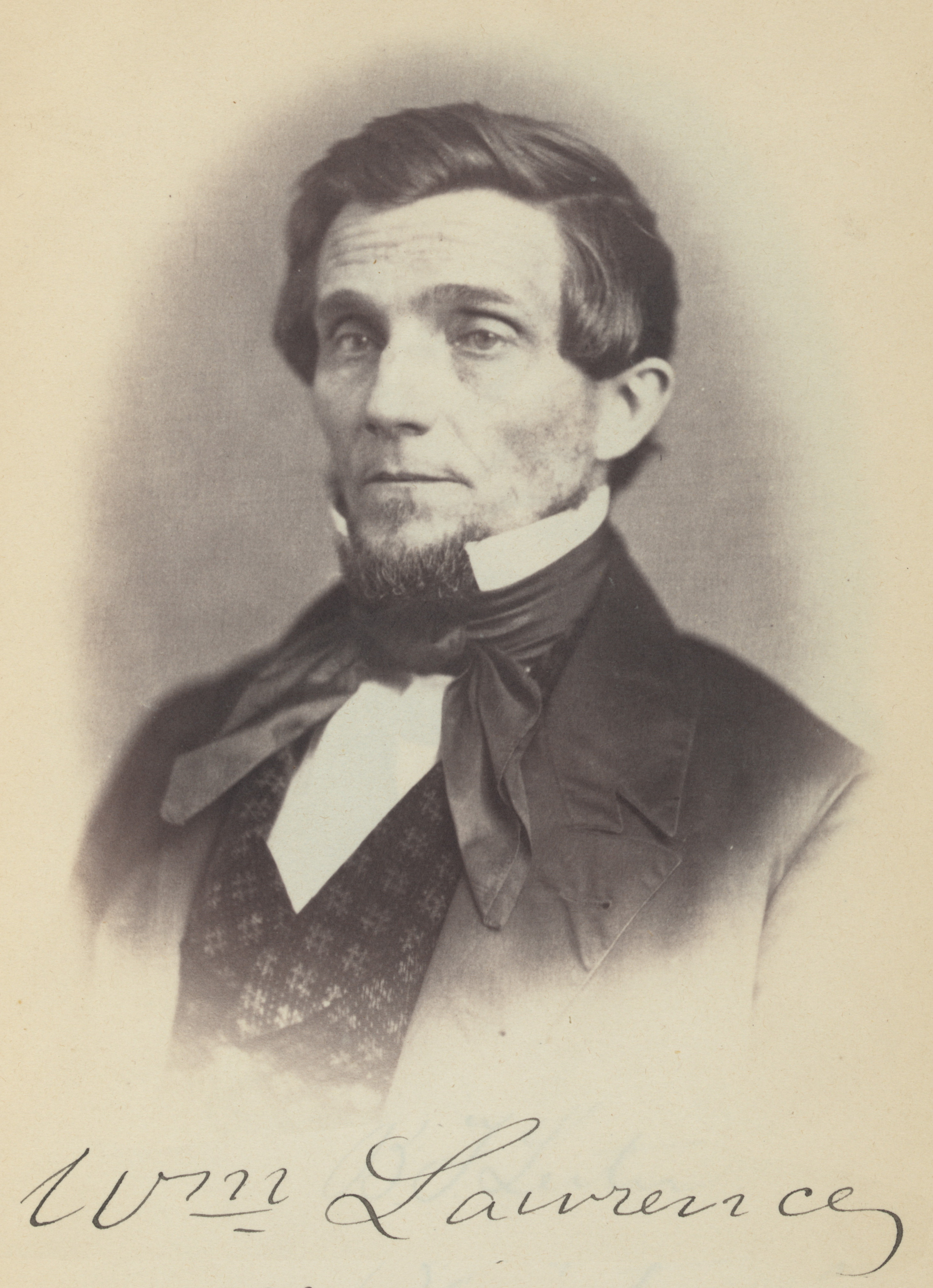 William Lawrence, congressman from Old Washington, Ohio. From (1859) McClees' gallery of photographic portraits of the senators, representatives & delegates to the thirty-fifth Congress, Category:Washington: McClees and Beck, p. 203 .